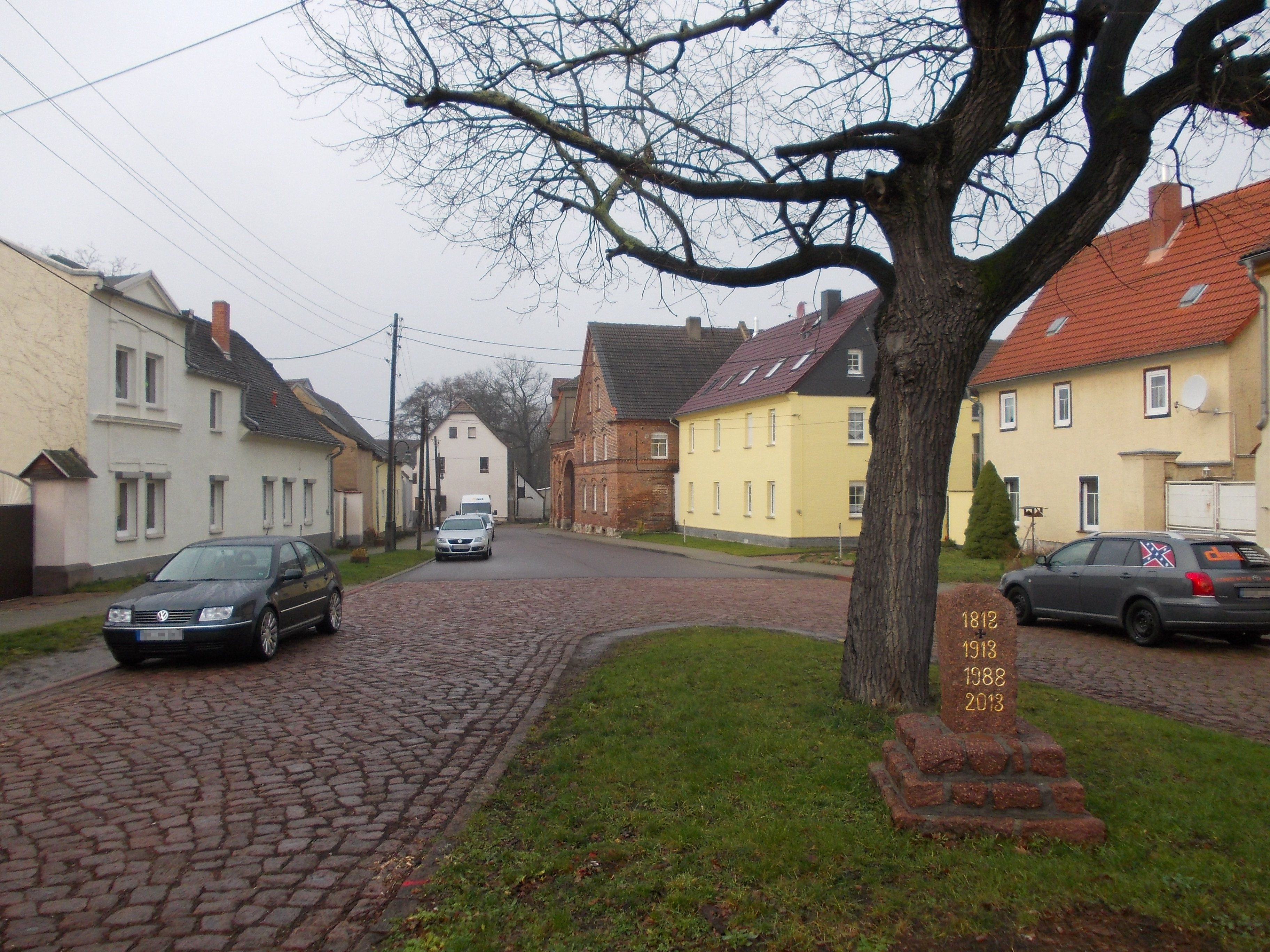 Altes Dorf in Zwintschöna (Kabelsketal, district: Saalekreis, Saxony-Anhalt)